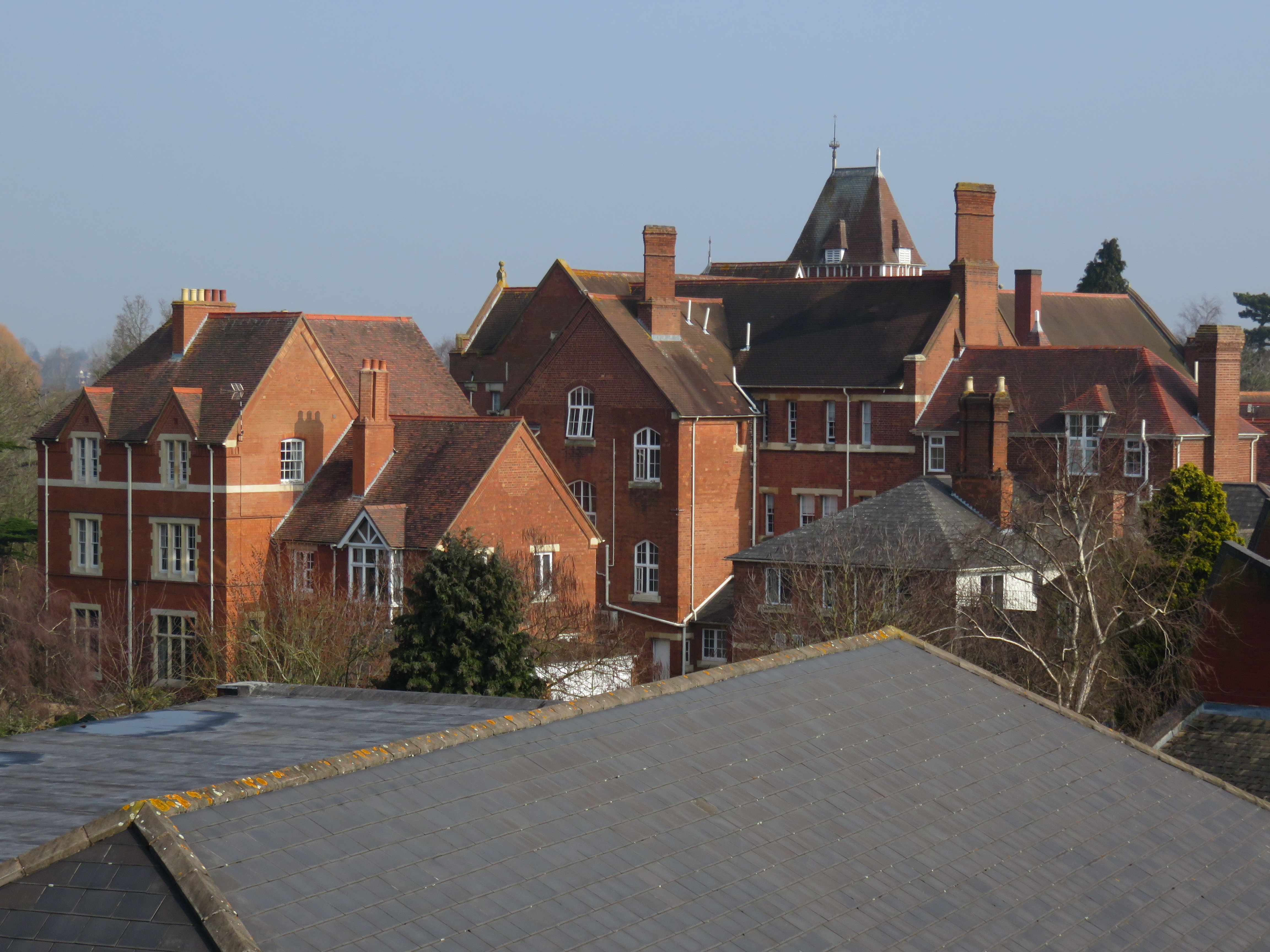 A photograph from the roof of the science block of Warwick School, showing the 1879 buildings of the main school.